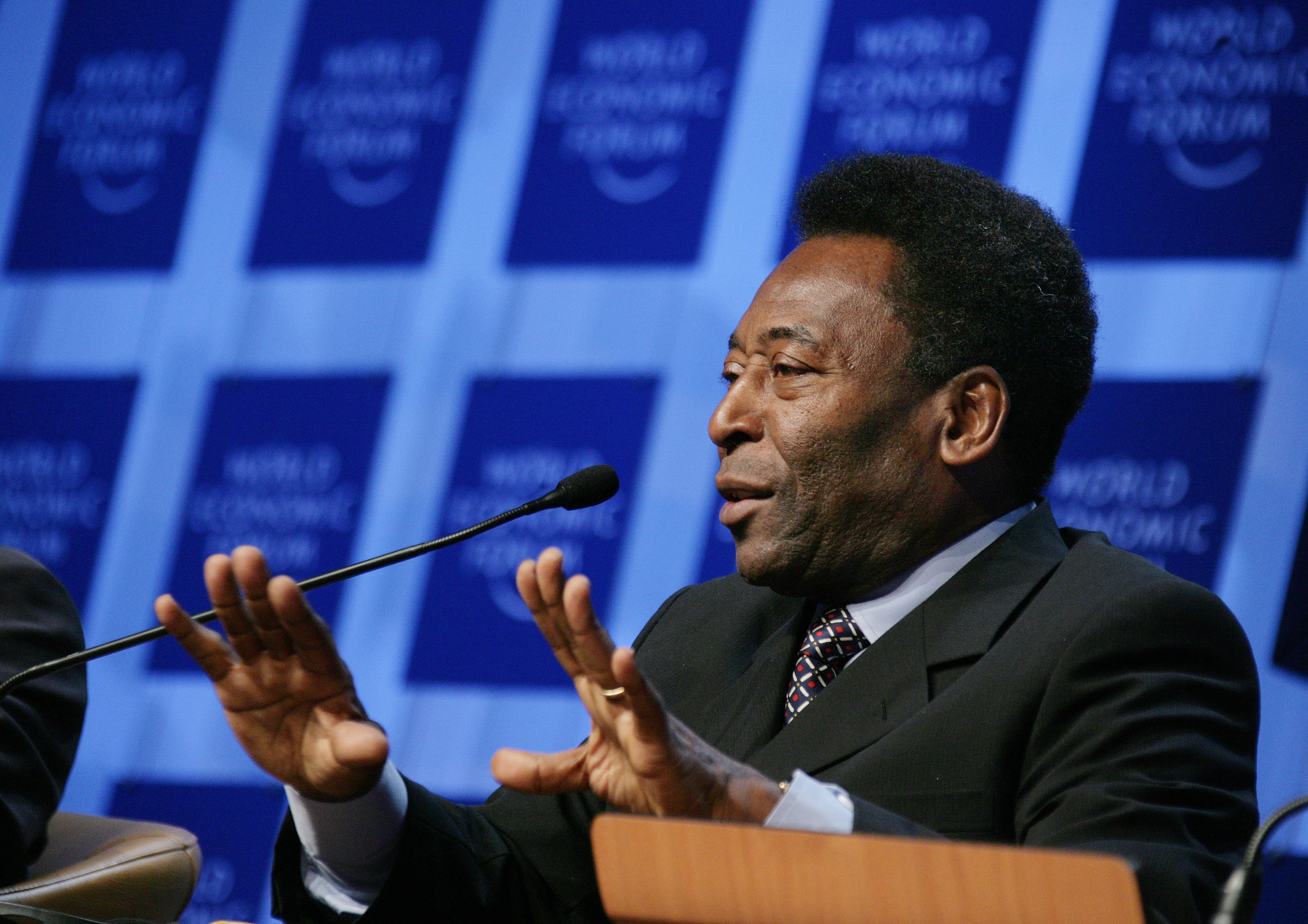 Edson Arantes do Nascimento (Pele), World Cup Soccer Champion and Director, Empresas Pele, Brazil captured during the session 'Can a Ball Change the World: The Role of Sports in Development' at the Annual Meeting 2006 of the World Economic Forum in Davos, Switzerland, January 26, 2006. Copyright World Economic Forum. swiss-image.ch.